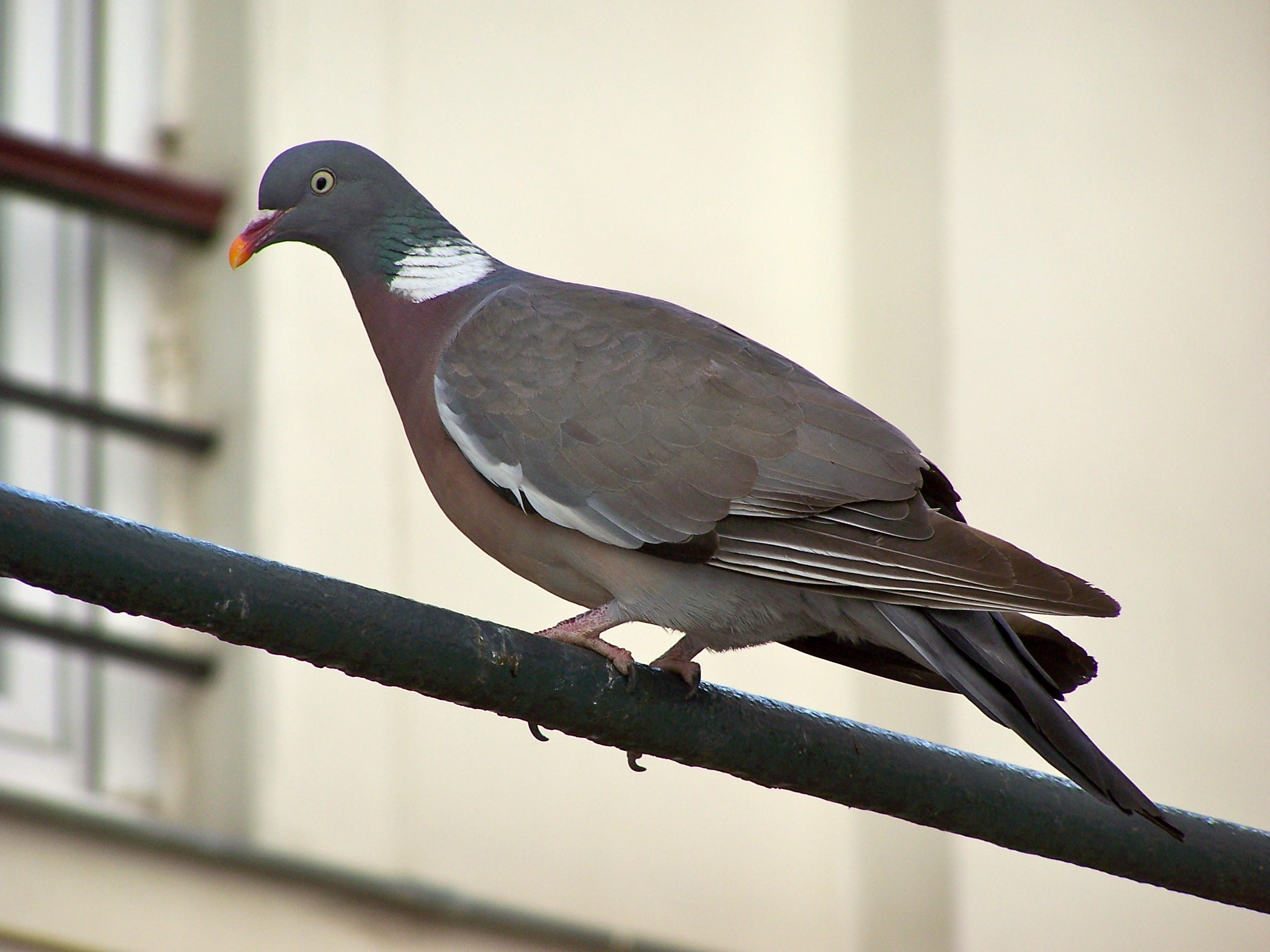 Columba palumbus in Paris